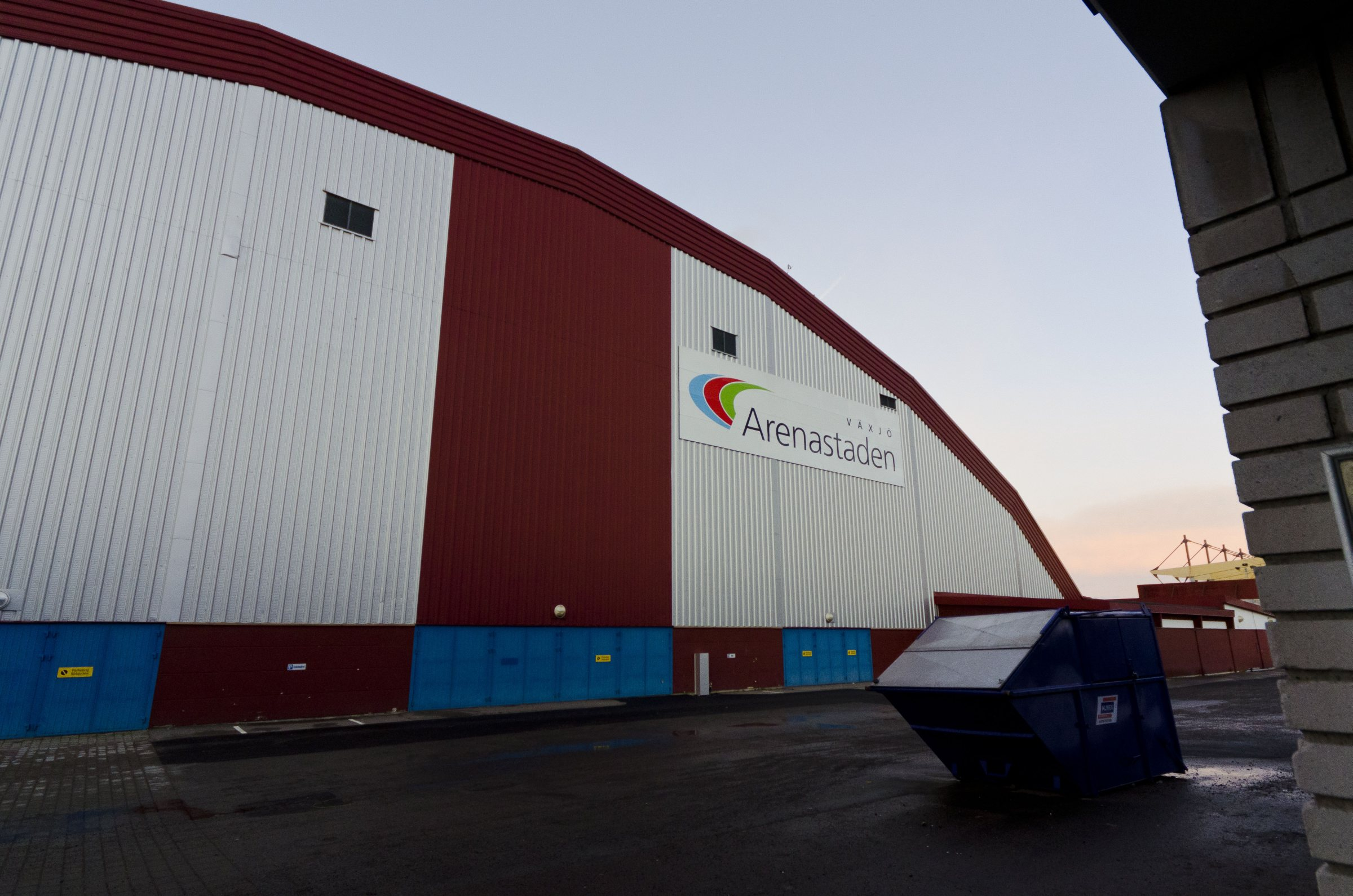 The massive southern facade of Växjö Tipshall basking in the winter sun.